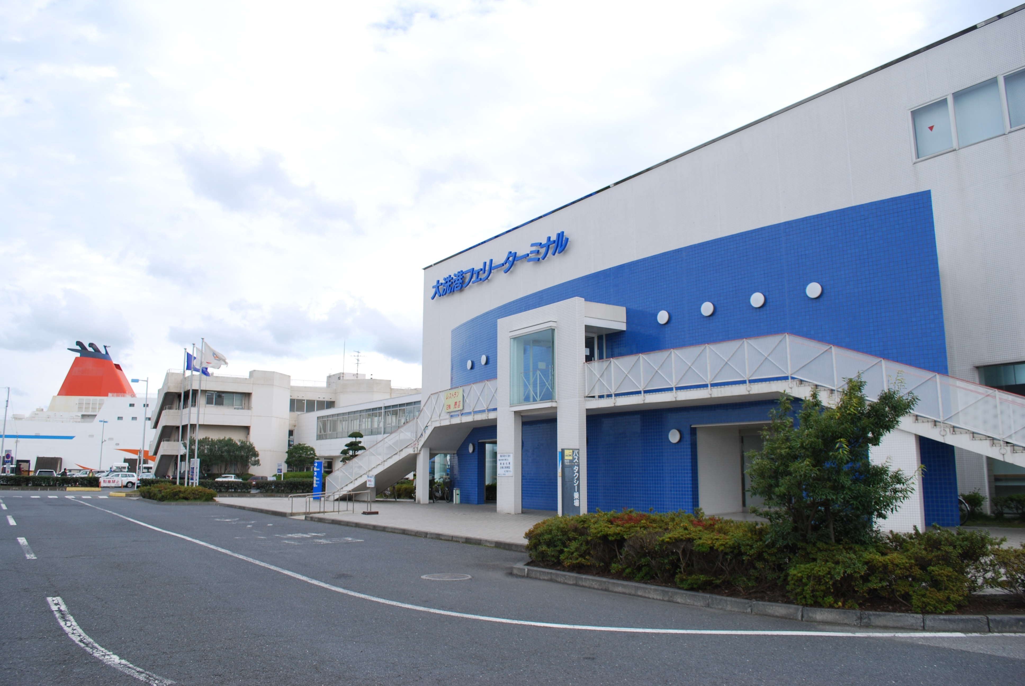 Oarai port, ferry terminal, Oarai town, Japan